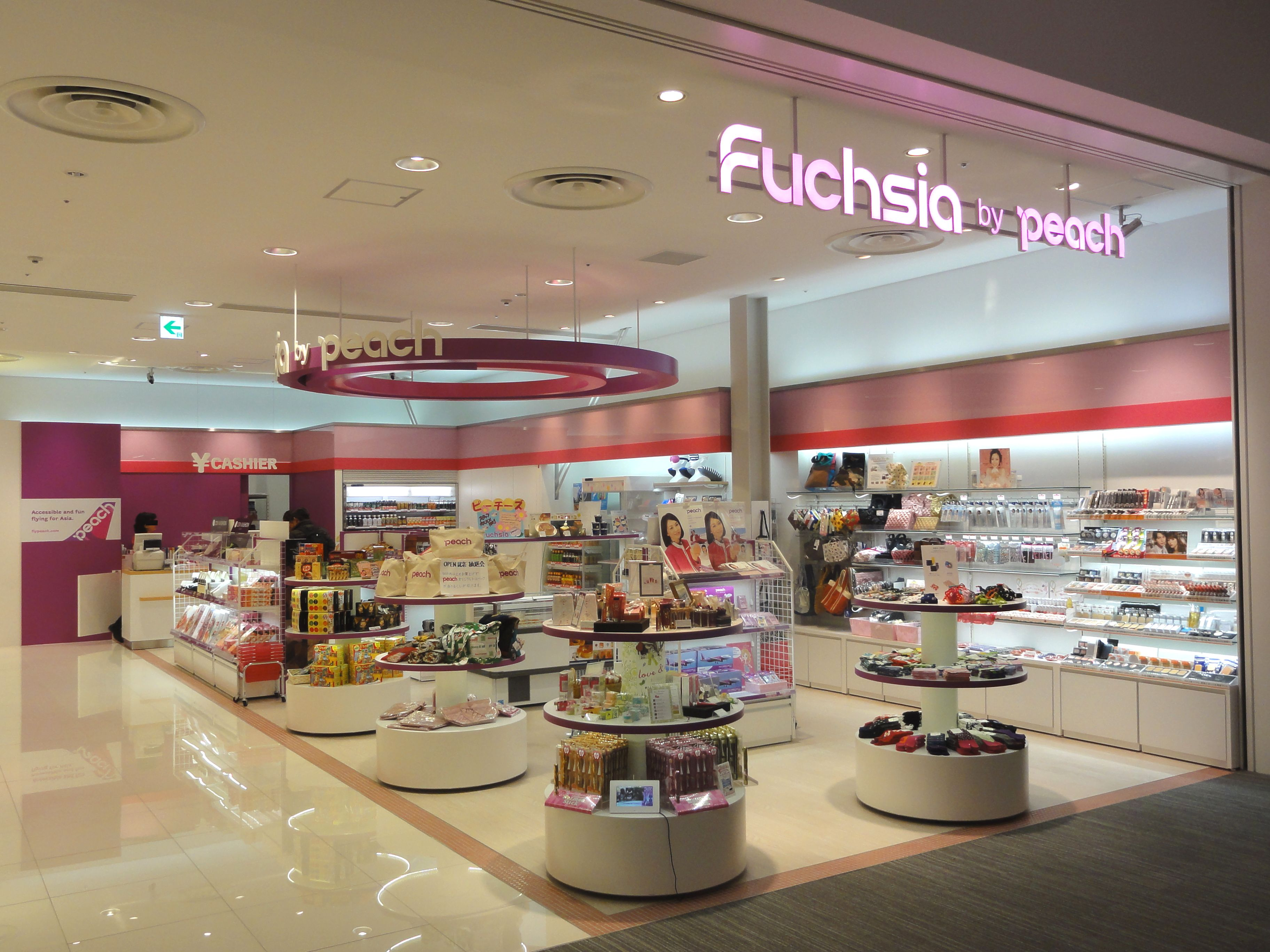 Peach Aviation 直営物販店「Fuchsia by Peach」